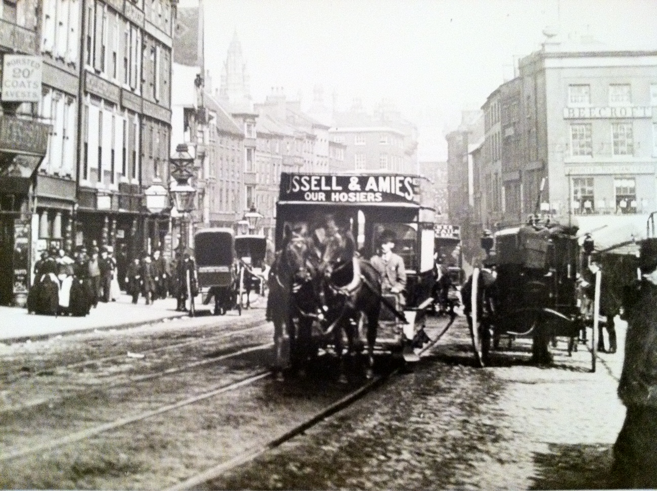 Horse tram on Long Row, Nottingham, circa 1890